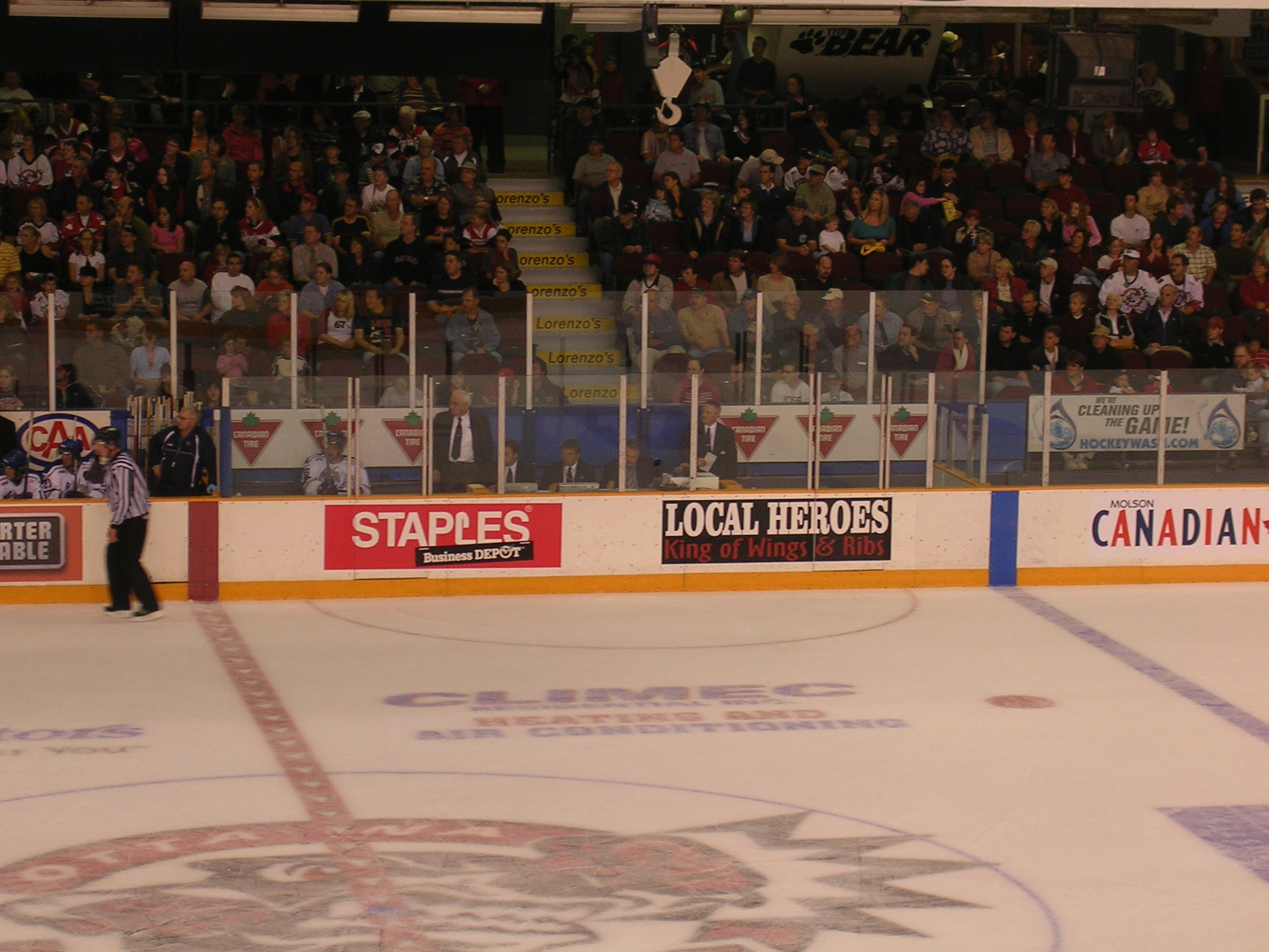 Penalty box